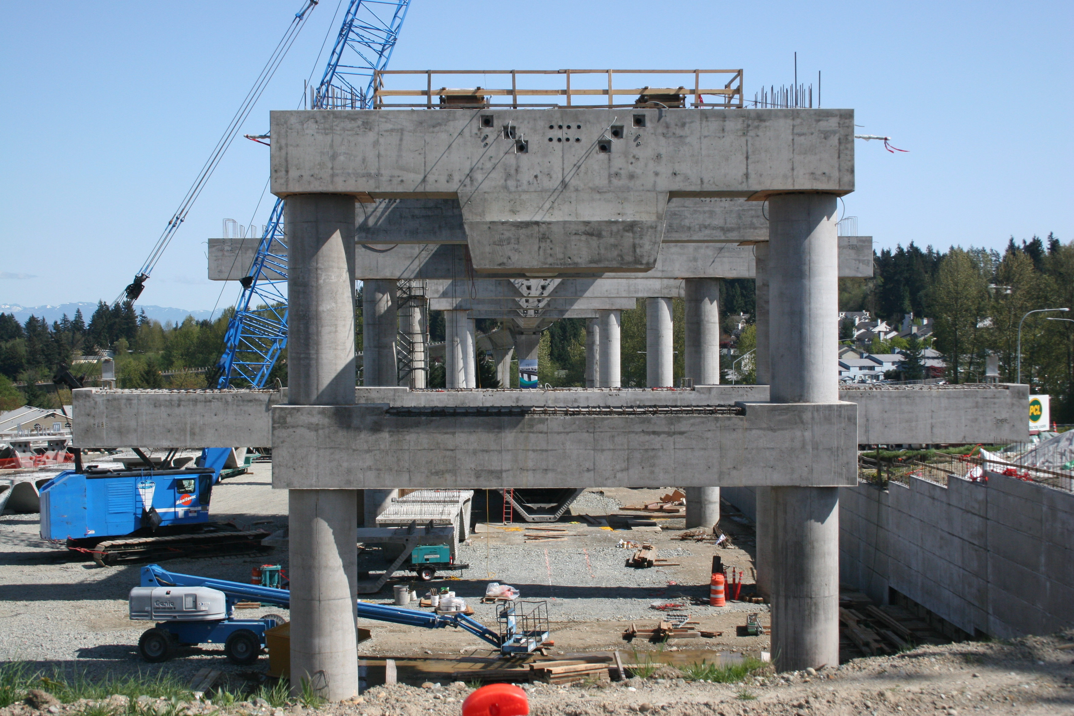 Construction of the Tukwila International Boulevard station for Sound Transit's Link Light Rail system near Seattle, Washington.